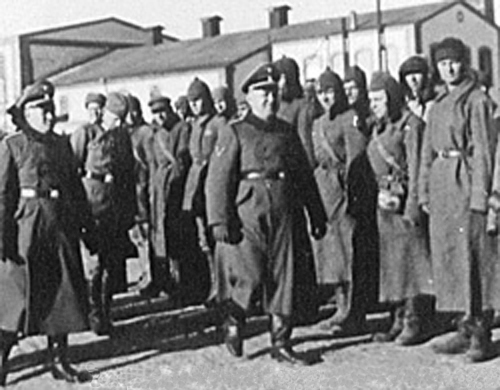 Karl Streibel (born October 11, 1903), commandant of Trawniki concentration camp.